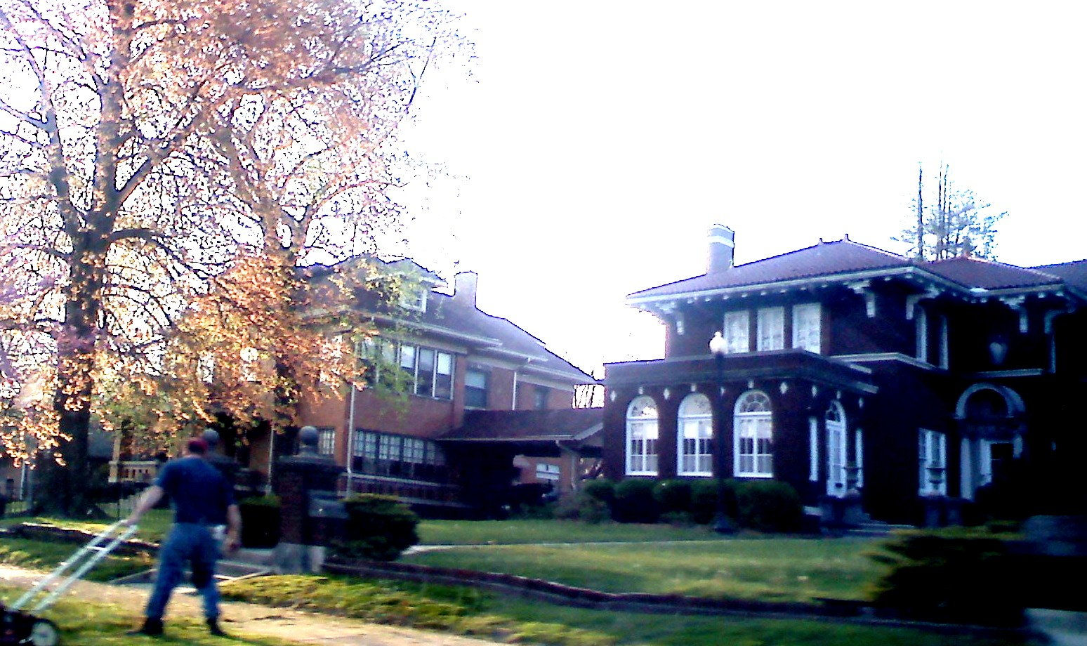 Poplar Street, in a residential neighborhood of Harrisburg, Illinois